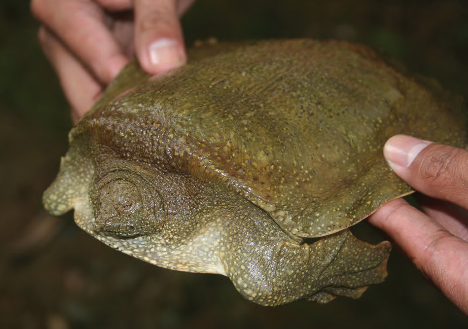 Pelochelys cantorii from the vicinity of San Mariano, the Philippines. Photo: MVW.